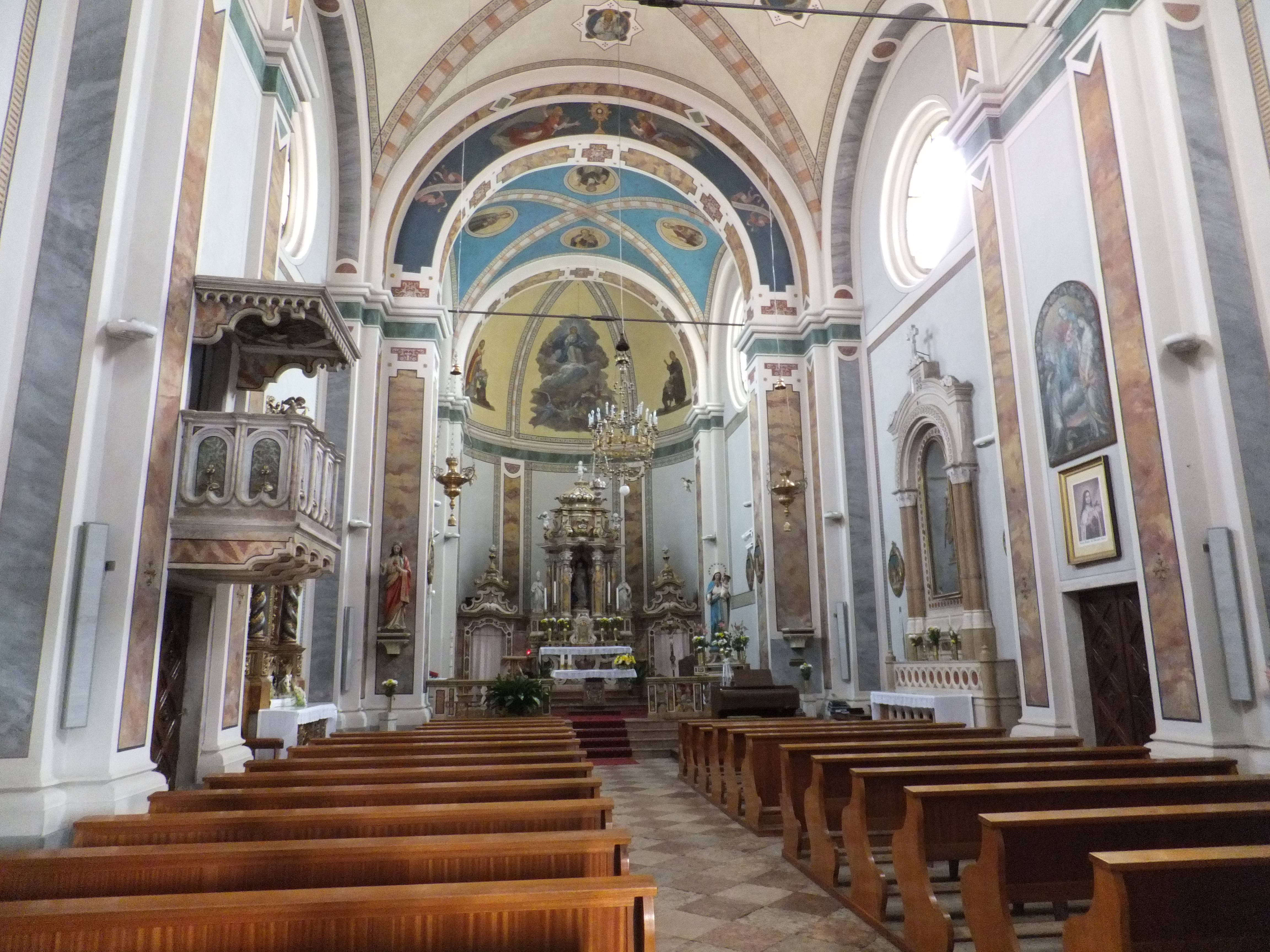 Lisignago - Church of Saint Blaise - Interior